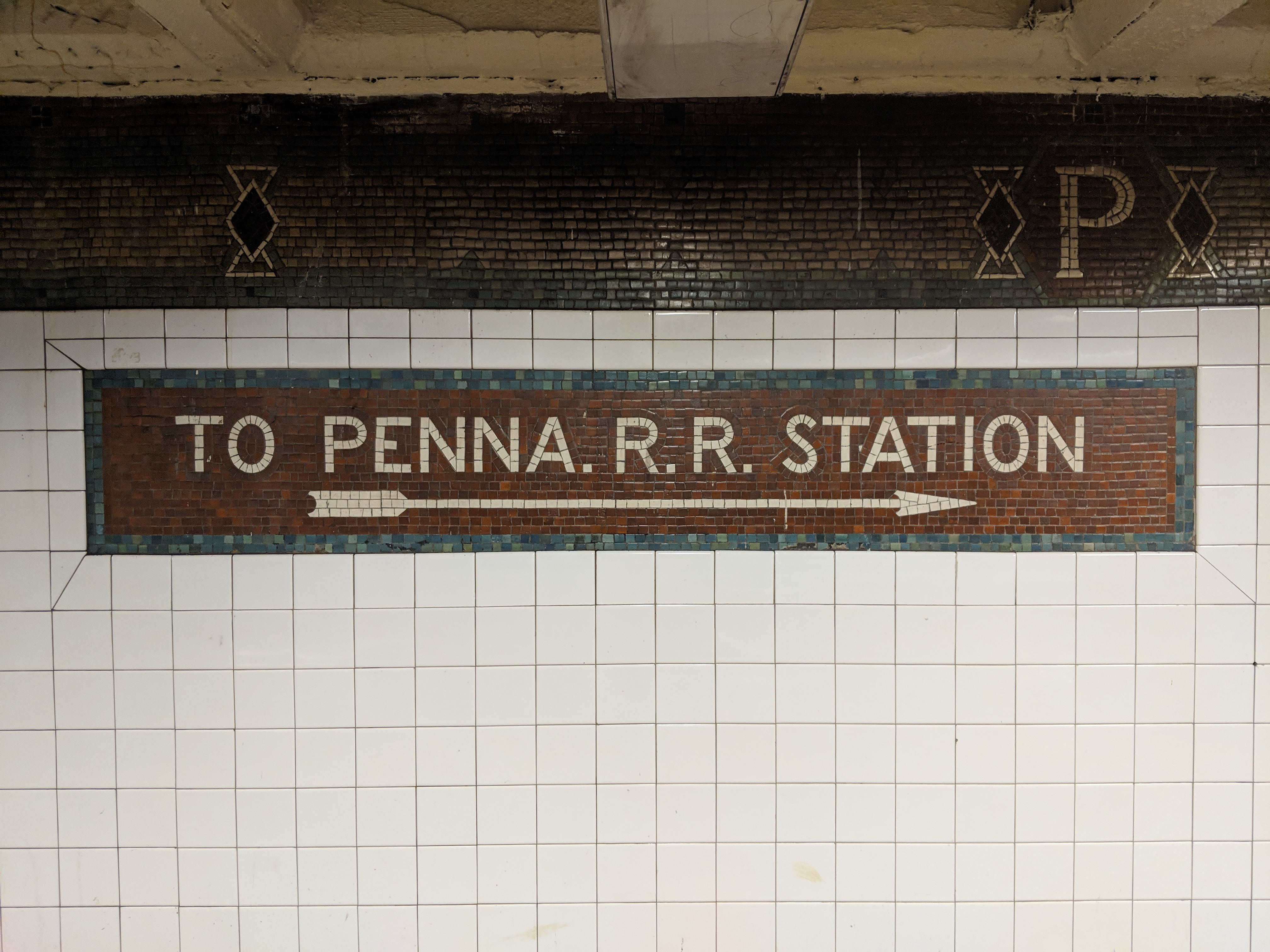 Tile sign in New York’s 34th Street/Penn Station subway station, showing direction to Pennsylvania Station. Notable for punctuation of abbreviation “Penna.”, using a period even though this only omits internal letters.